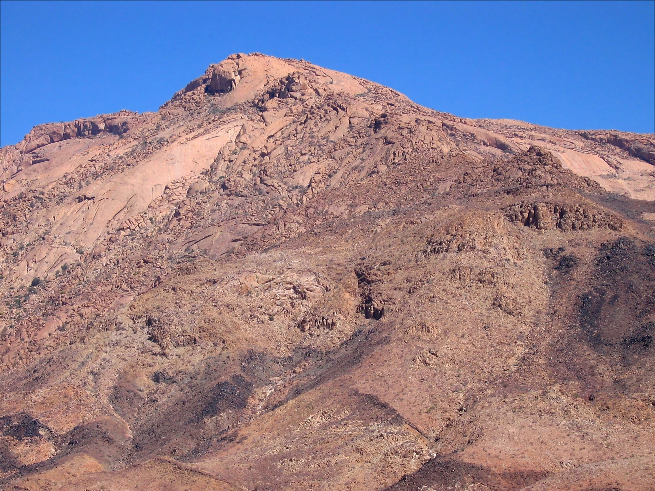 Brandberg, Namibia